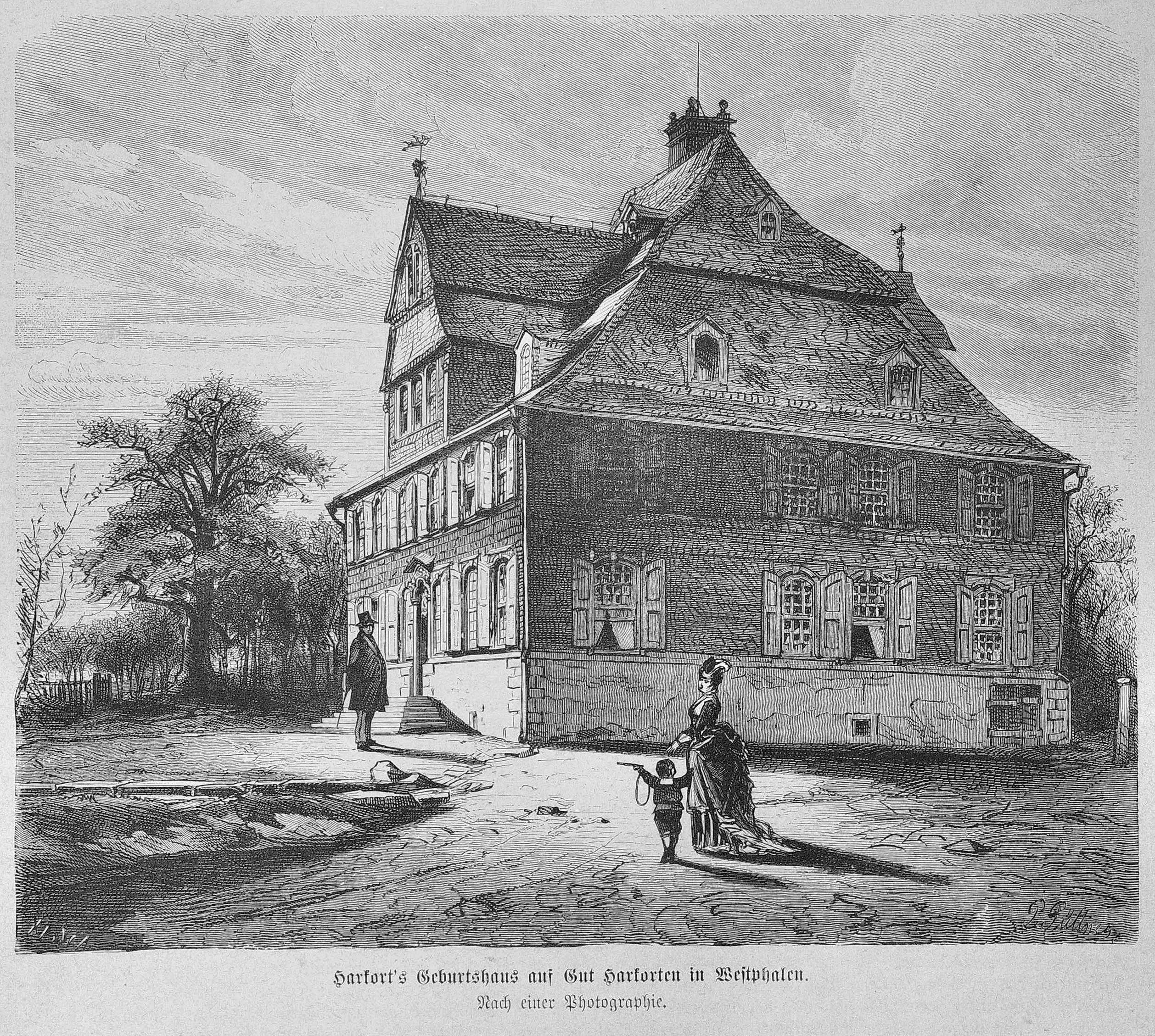 caption: "Harkort’s Geburtshaus auf Gut Harkorten in Westphalen. Nach einer Photographie."